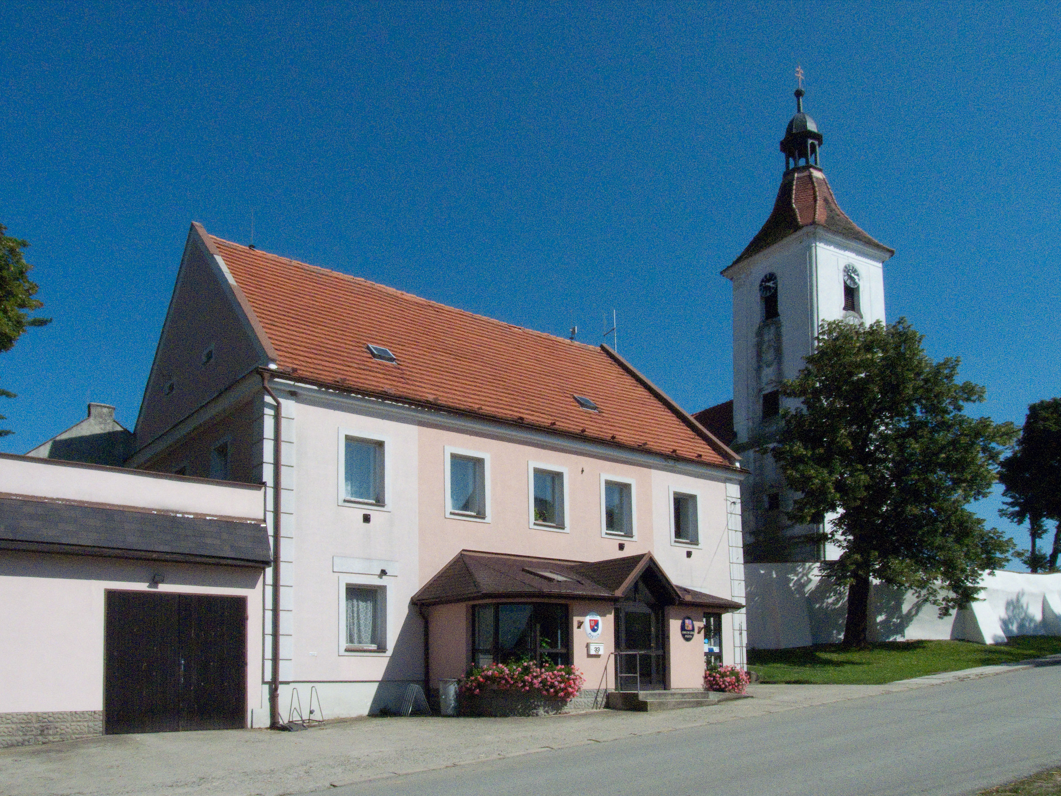 Municipal authority building in Pištín, České Budějovice district,Czech Republic